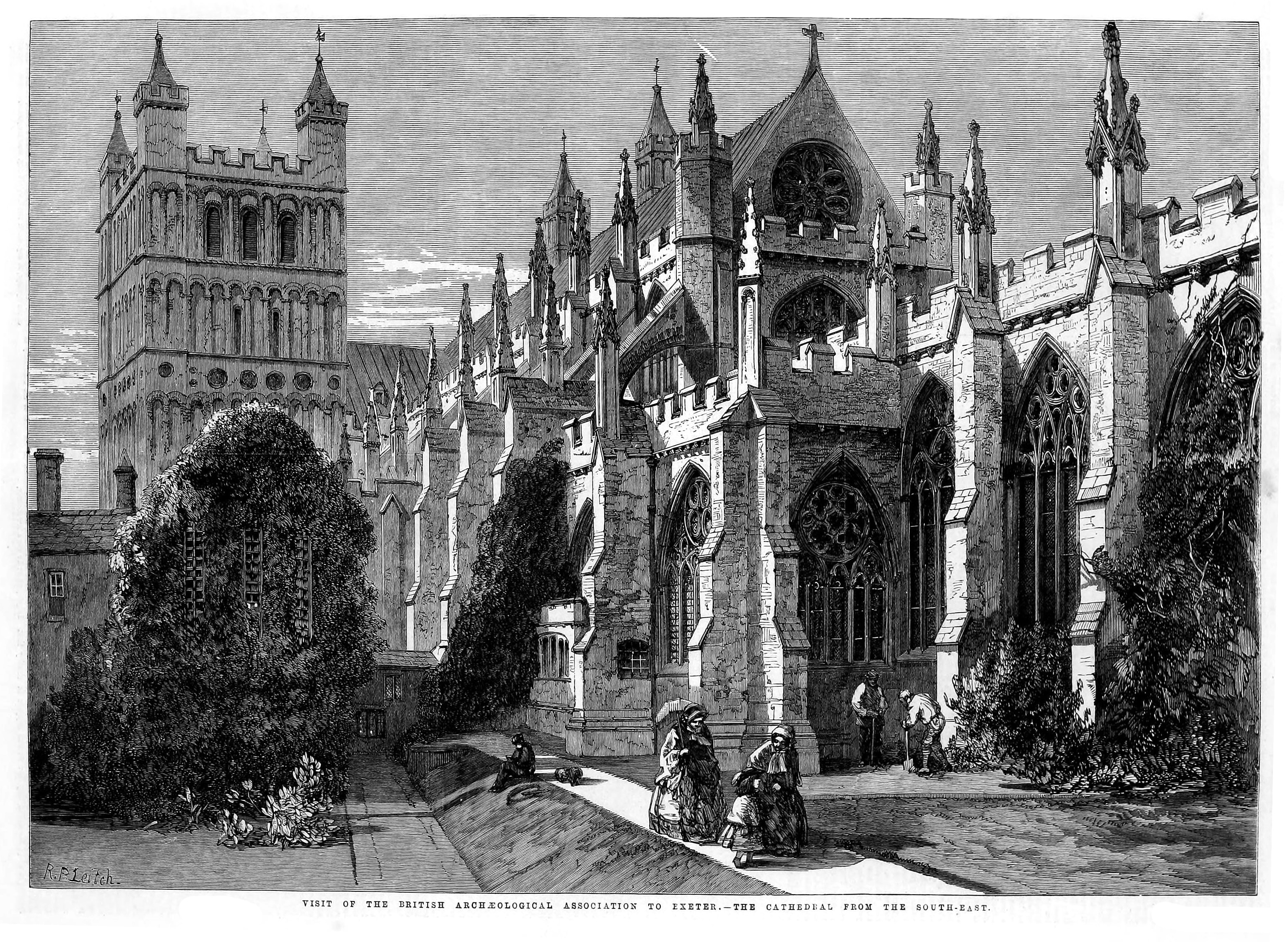 Exeter Cathedral